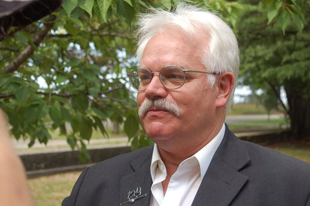 Australian speculative fiction author, editor, and critic Terry Dowling. Photograph by Catriona Sparks.